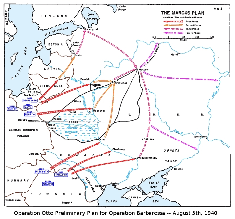 Graphic representation of original German plan of attack on Soviet Union during World War II from US government study